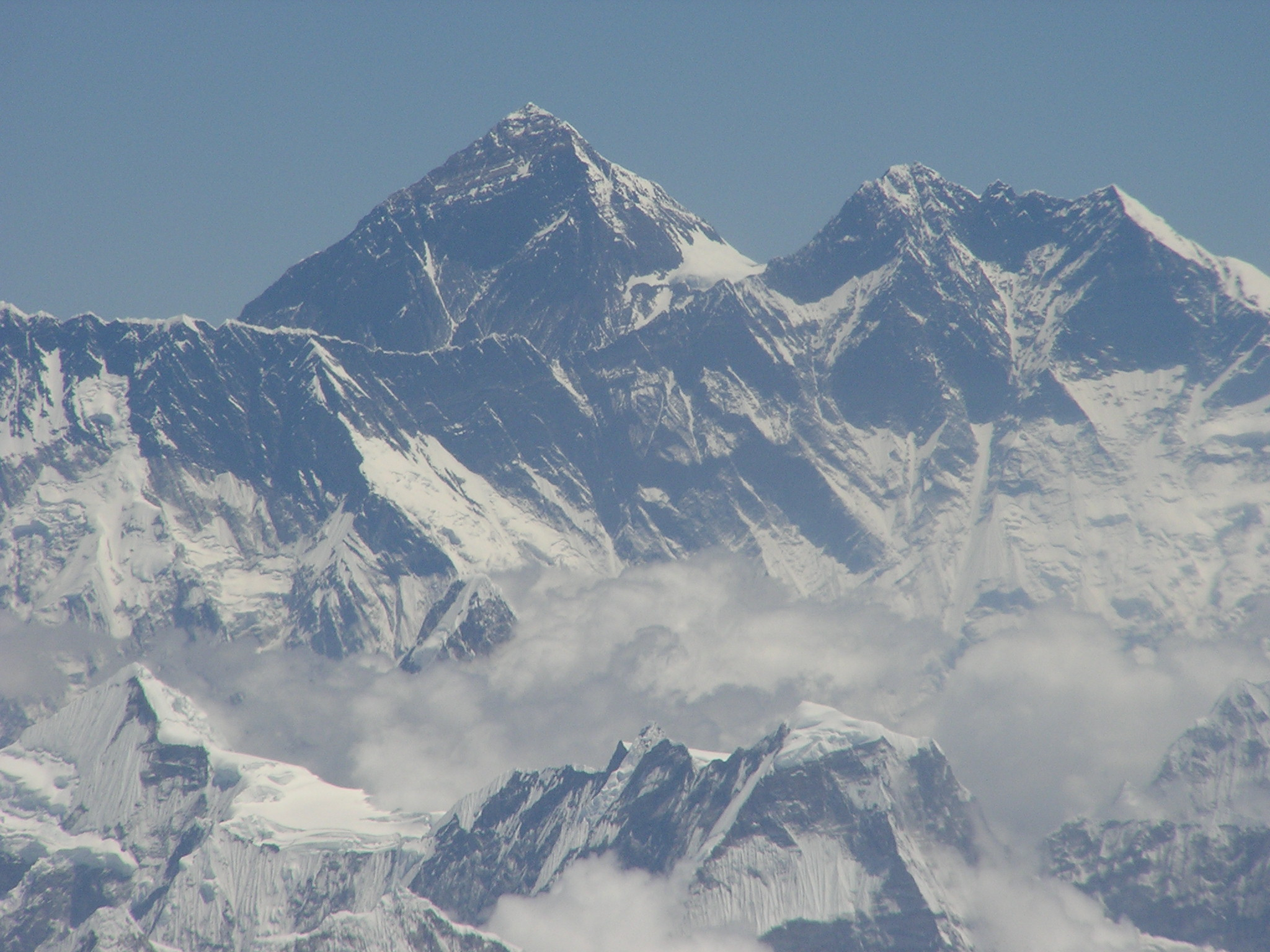 Himalayas 9 from airplane.